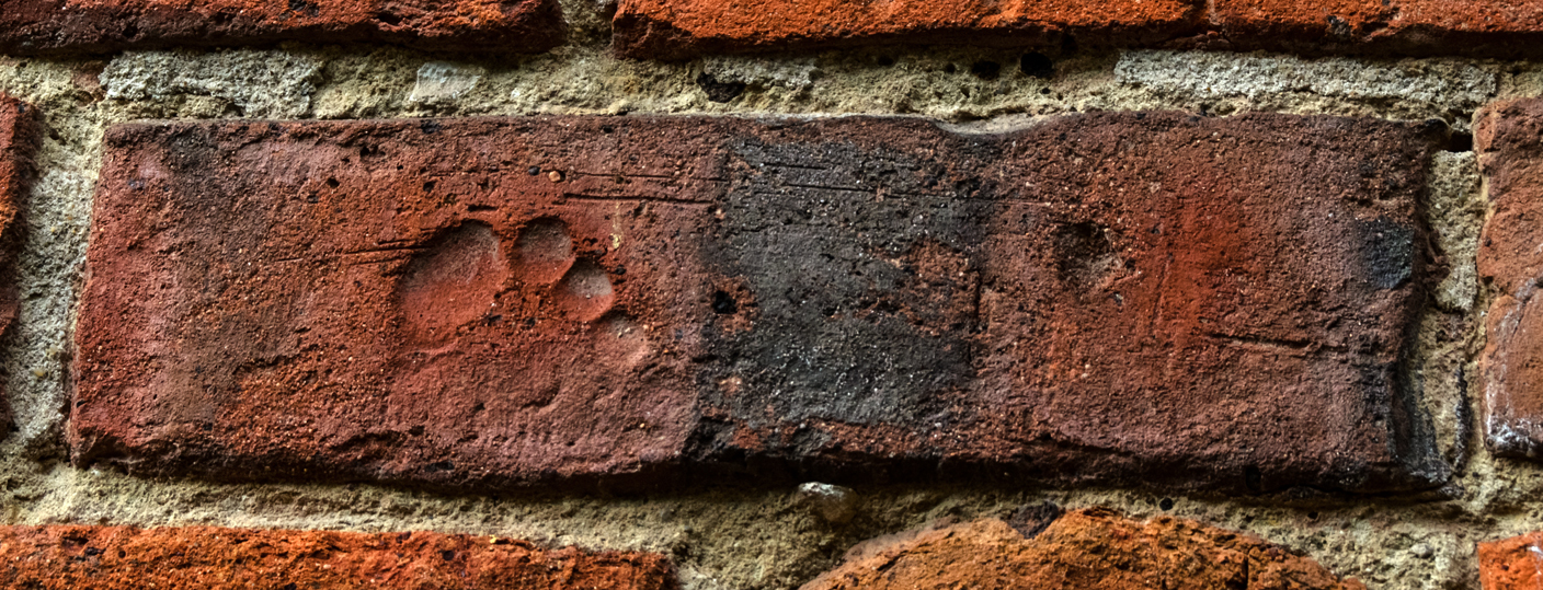 Brick in the outer wall of the church Roßdorf